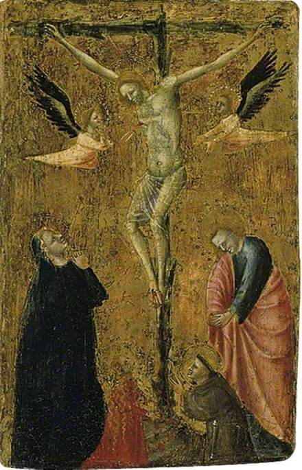 Maestro di Verucchio - Crocifissione Date painted: c.1345 Tempera with gold on panel, 20 x 12.7 cm The Fitzwilliam Museum